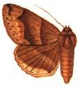 PLATE CCXXI.